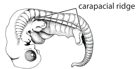 Standard Event System character depiction